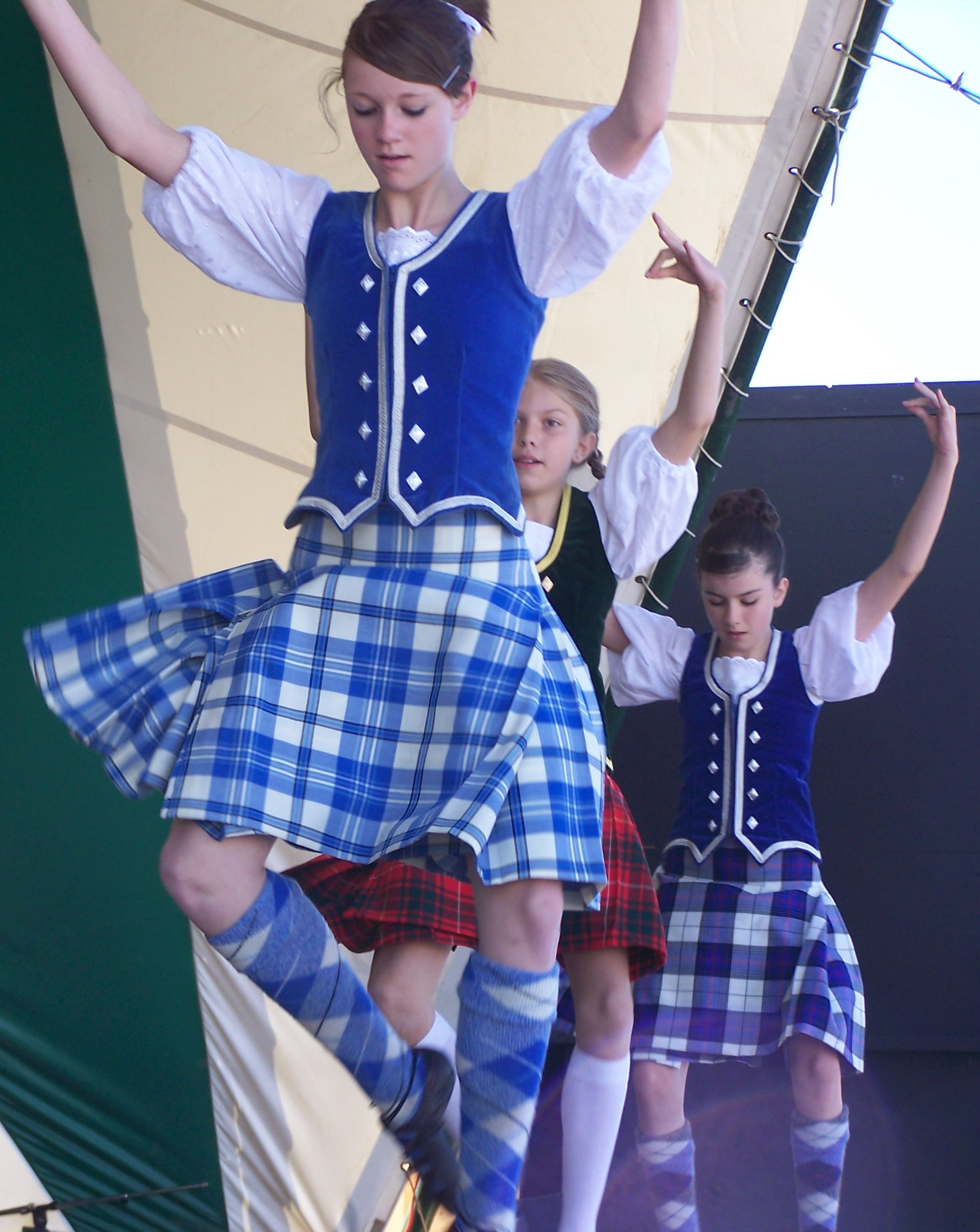 Girls from the Brazier School of Highland Dance performed at the Festival Stage at Spruce Meadows (during the CSIO Spruce Meadows 'Masters' Tournament) on Sunday September 9, 2007 in Alberta, Canada.